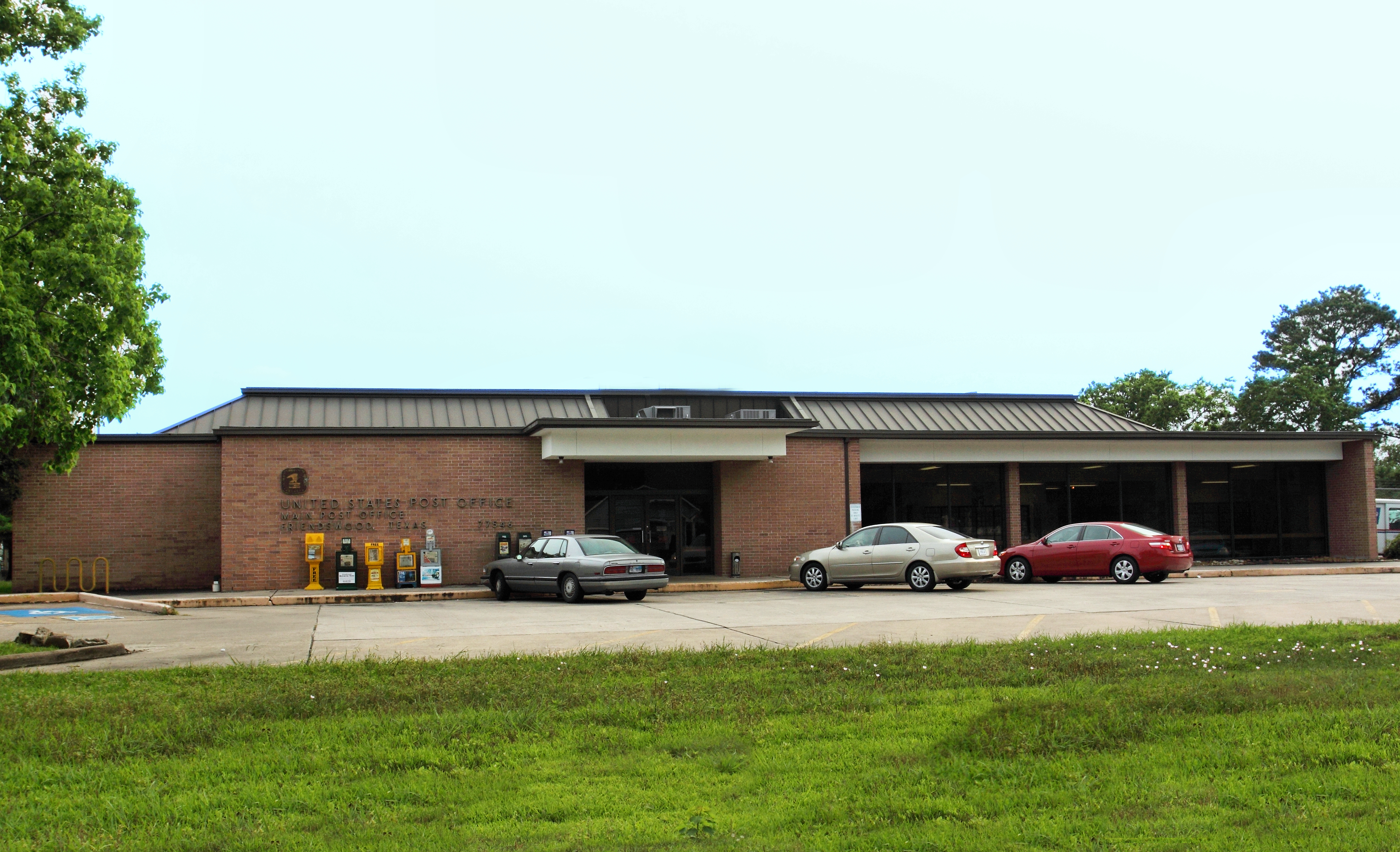 Friendswood, Texas, USA, Post Office, 77546/77549